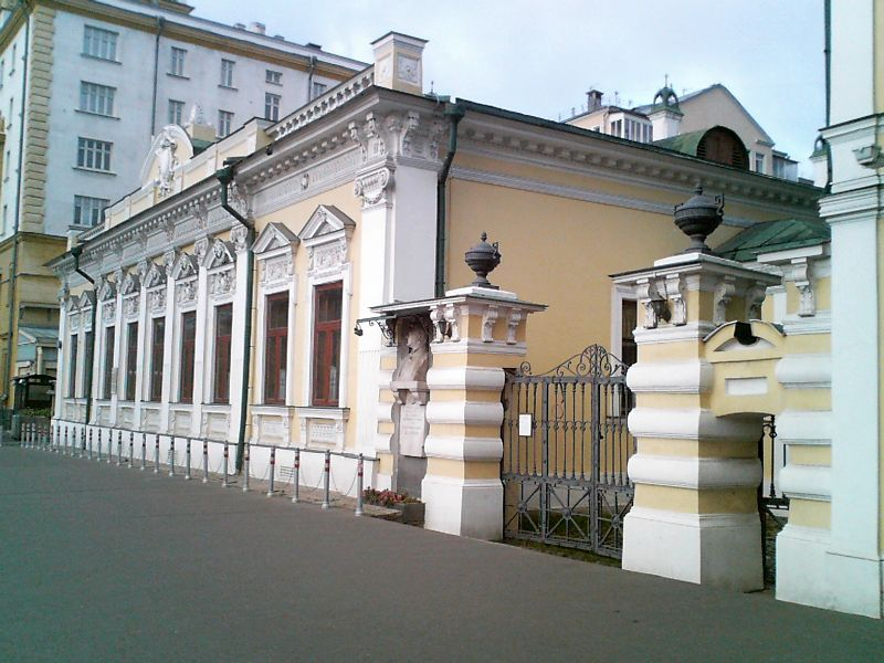 Chaliapin home on Novinsky Blv in Moscow (1910-1922)